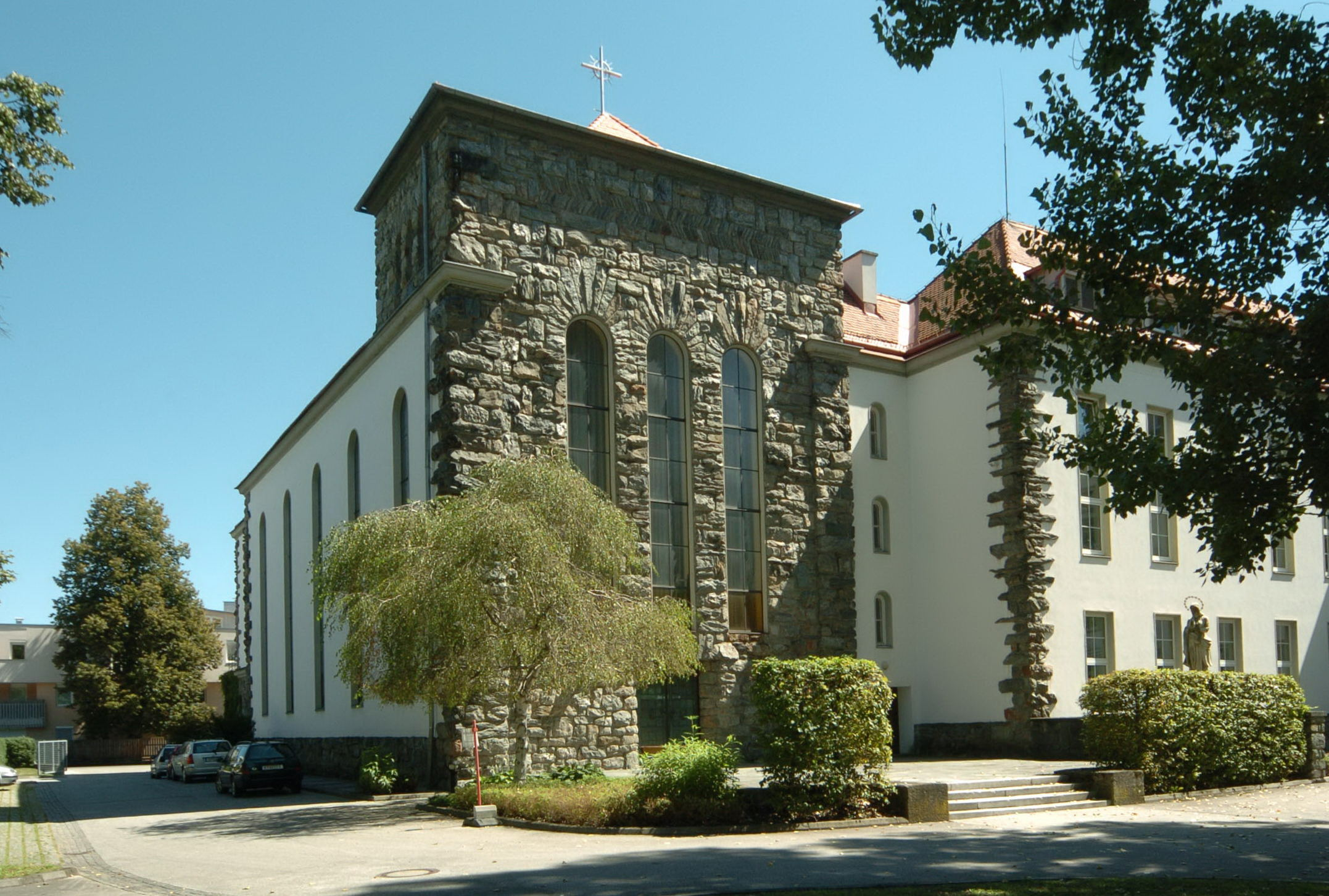 "King Christ" church near the Lendkanal in the Tarviser Street #30, Klagenfurt, Carinthia, Austria